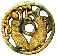 Section 8.7: "Open work - Fish" 48 mm Obv. Man and fish Meaning: Ref.: [M] 8.7.11 [SS] 343